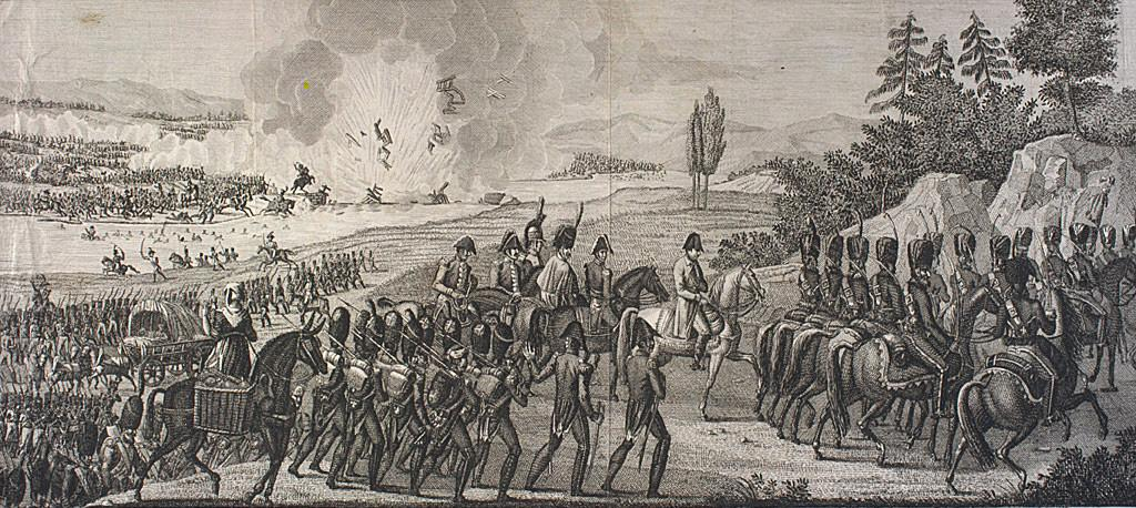 The Retreat of Napoleon after the Battle of Leipzig, 19 October 1813. After COUCHÉ fils, Louis François (1782-1849). Engraving from series of Italian prints based on Vernet "Campagnes des Français sous le Consulat et l'Empire". Pennington Catalogue p. 1361.